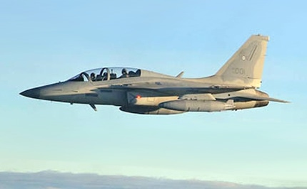 A FA 50 Golden Eagle jets that accompanies the Philippine Airlines PR 001 as it arrive Philippine area of responsibility Friday, February 19, 2016, from the President and his delegation's participation to the US ASEAN Summit. The FA 50 jets are part of PAF's modernazation effort during the Aquino administration. With the President is Defense Secretary Voltaire Gazmin. (Photo by Gil Nartea/Malacanang Photo Bureau)